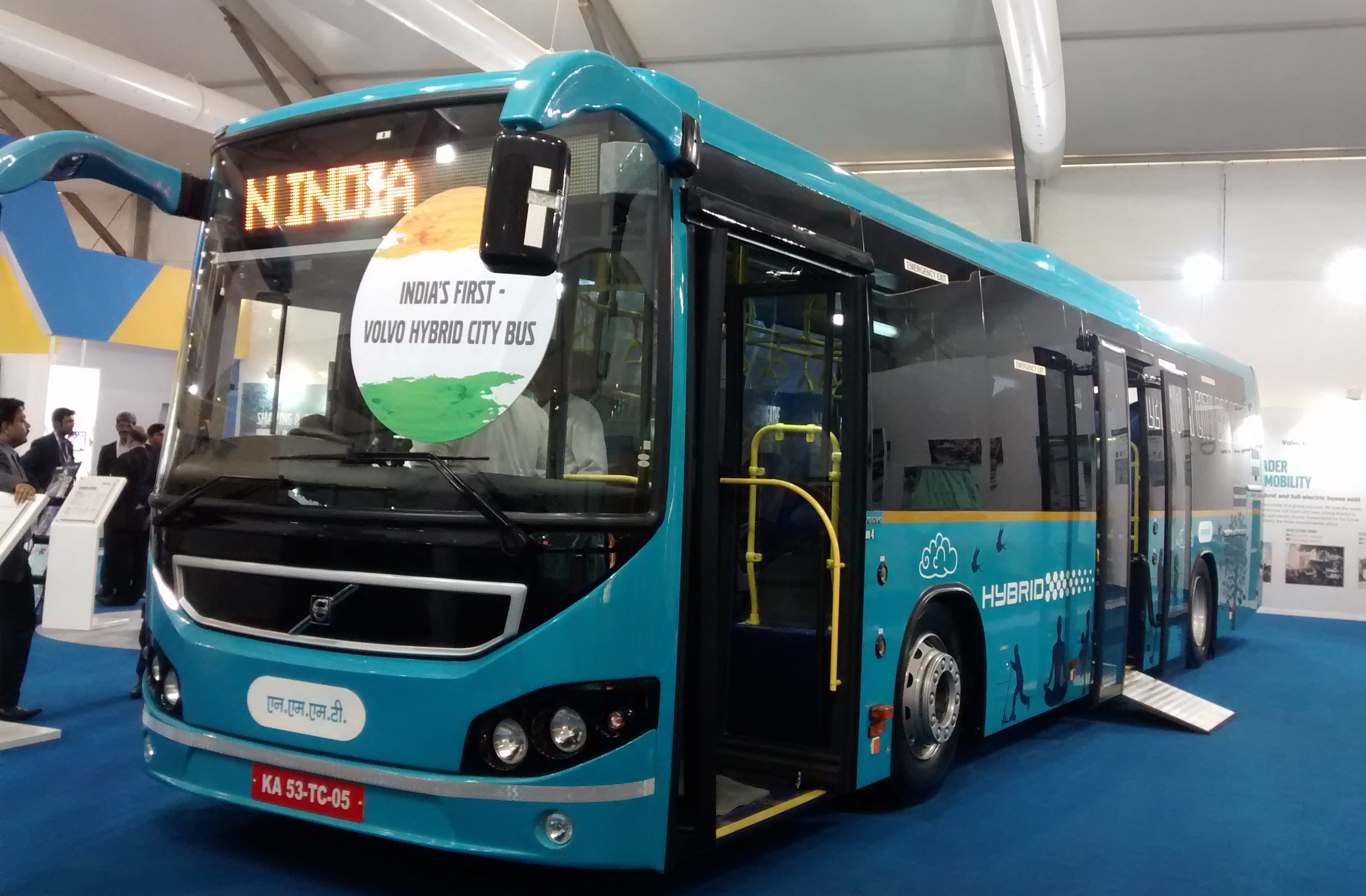 NMMT Volvo Hybrid